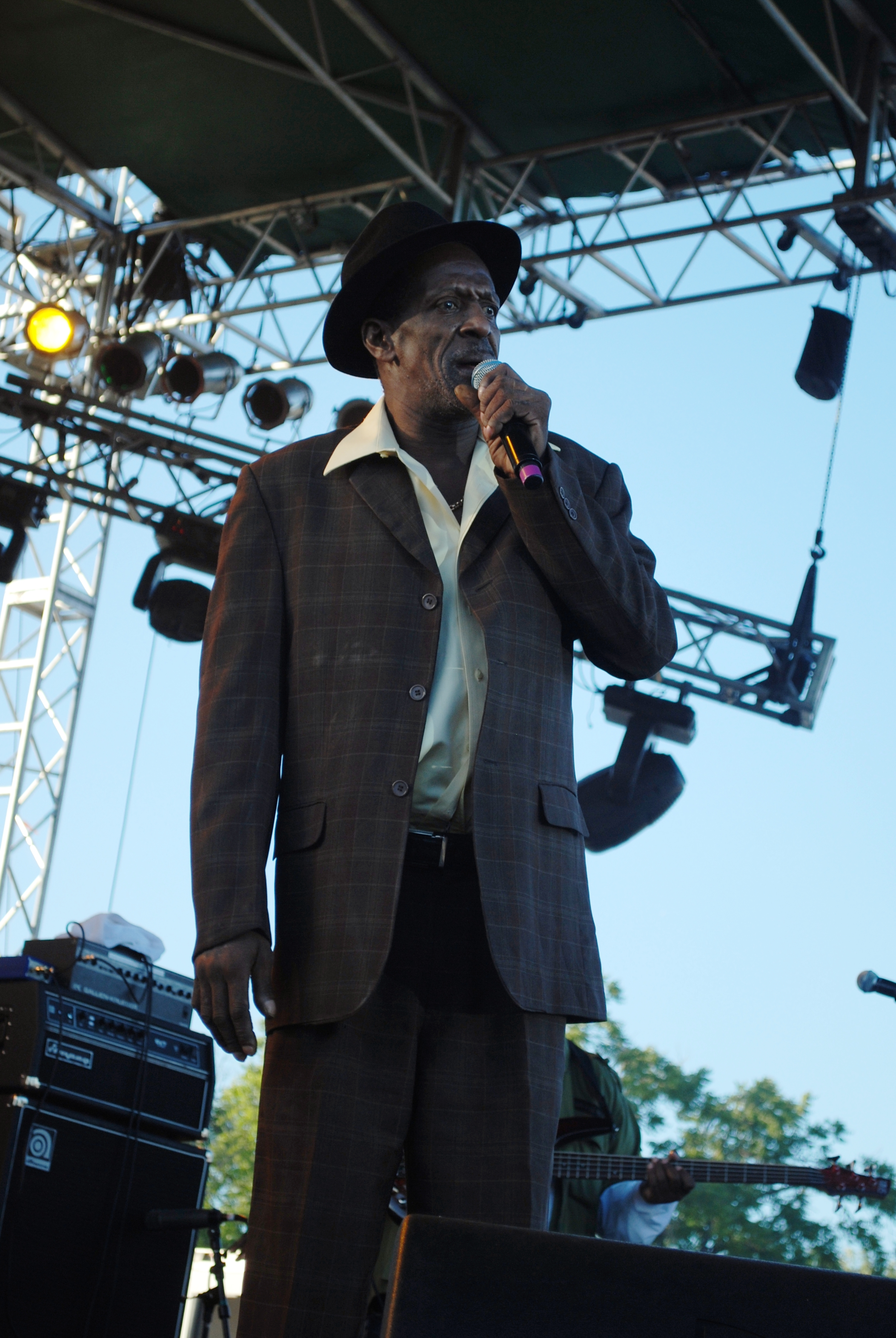 Gregory Isaacs on stage at Sierra Nevada World Music Festival 2010